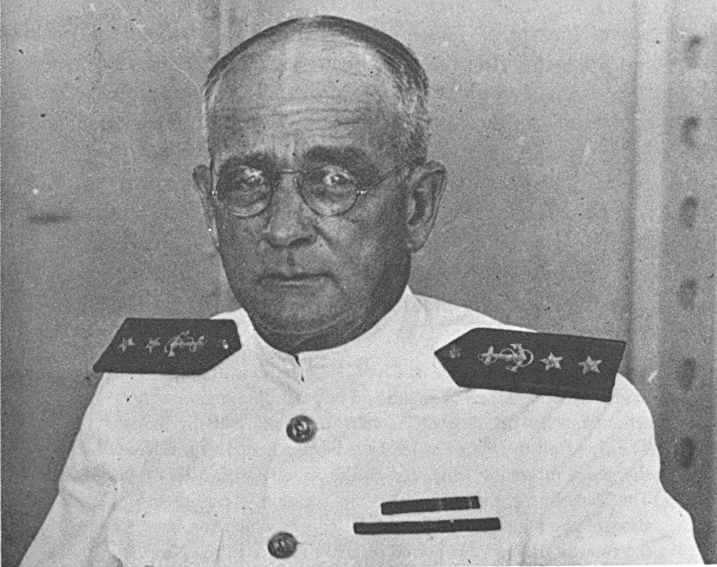 Rear Admiral Arthur J. Hepburn, circa 1932. Scanned from page 363 of Wheeler, Gerald E. (1974), Admiral William Veazie Pratt, US Navy, Washington D.C.: U.S. Government Printing Office (Naval History Division, Department of the Navy), a publication of the U.S. Navy distributed by the Government Printing Office. Original source is the Naval History Division, Washington D.C., photo # NH 54829.